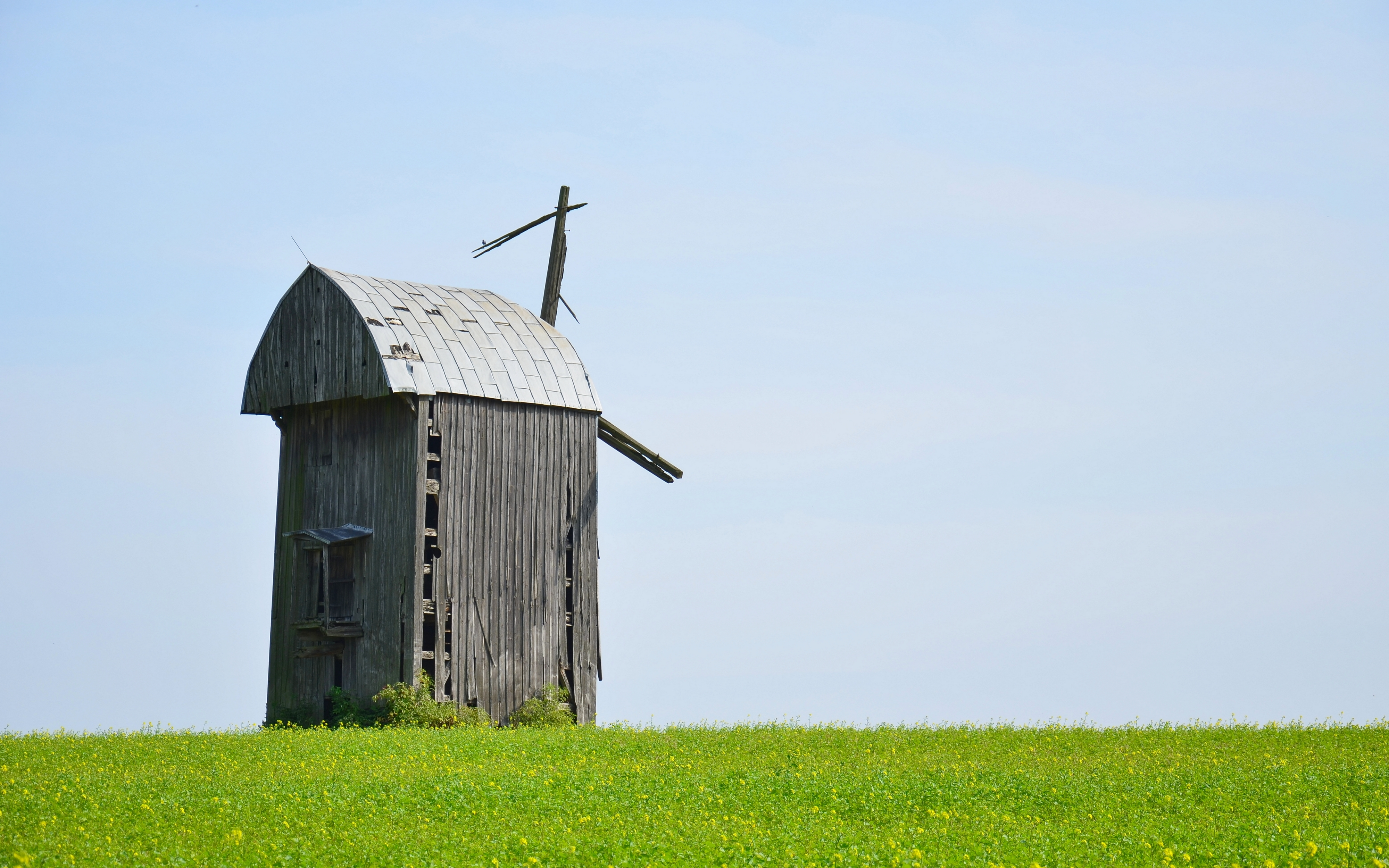 Windmill in Kurkocin Ta fotografia przedstawia zabytek wpisany do rejestru zabytków pod numerem ID 603503